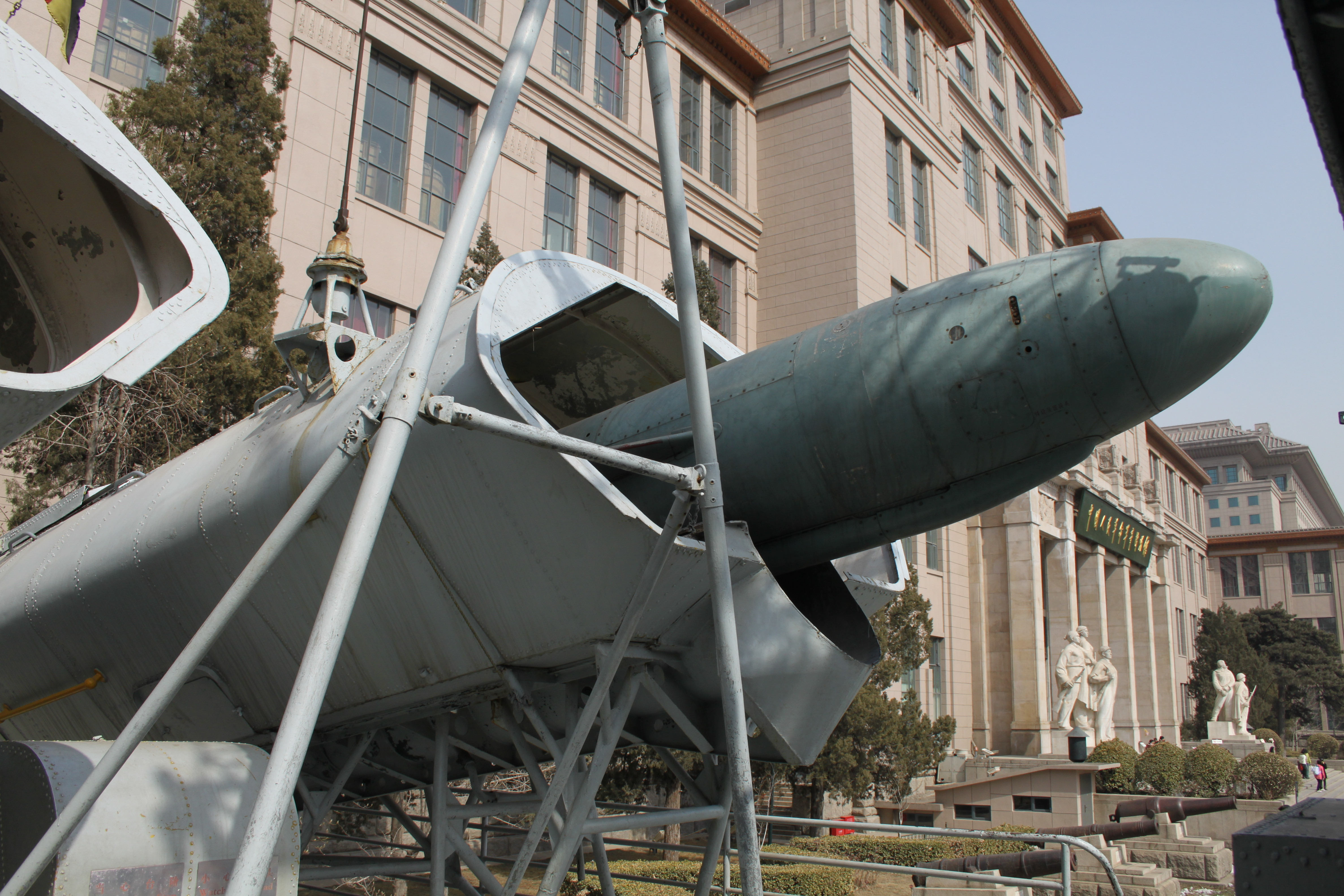 1967. Military Museum: Modern Weapons. Complete indexed photo collection at .